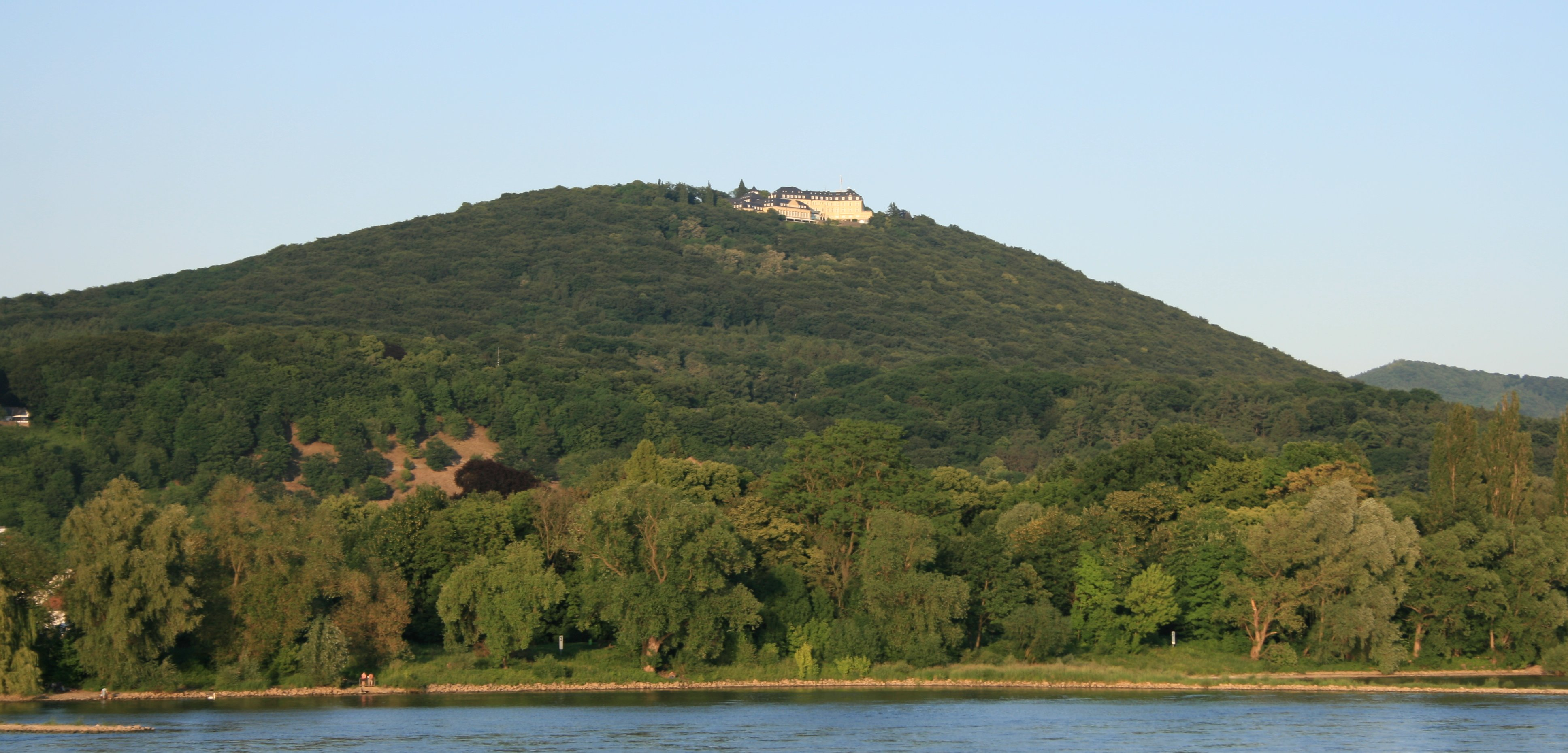 Petersberg mountain, germany, city of Königswinter nearby Bonn